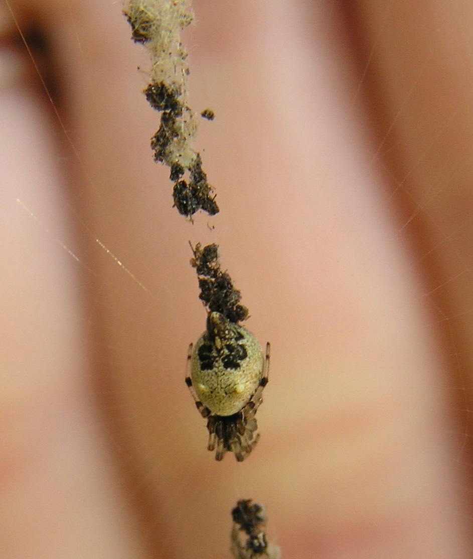 Spider and web